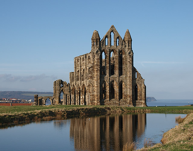 Whitby Abbey, Whitby in North Yorkshire